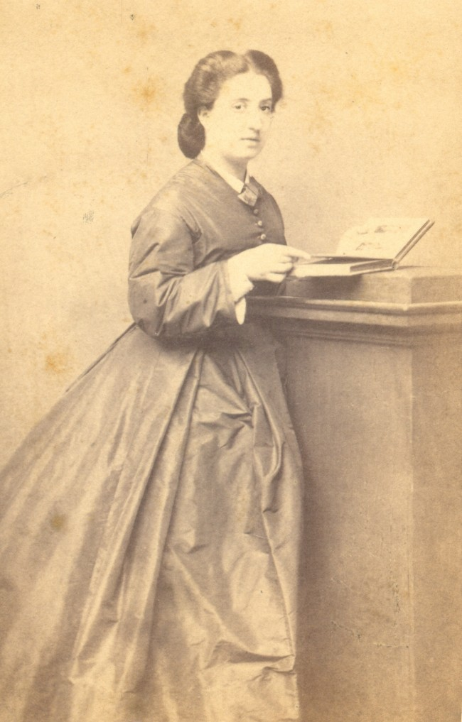 Marie Massot-Reynier, wife of Adolphe Amouroux (1836-1886)